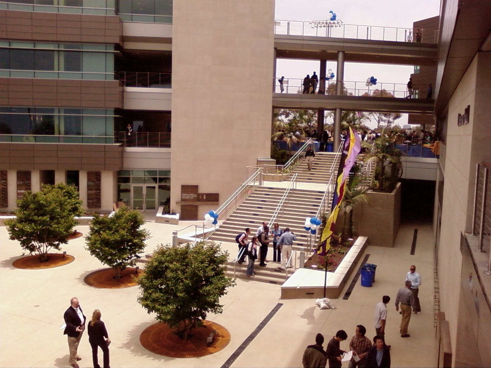 Otterson Hall, ribbon cutting ceremony